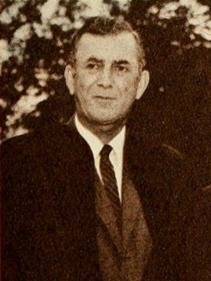 President Laurence M. Gould of Carleton Colleqe in 1961